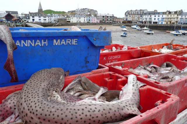 A recent catch at Ilfracombe harbour.